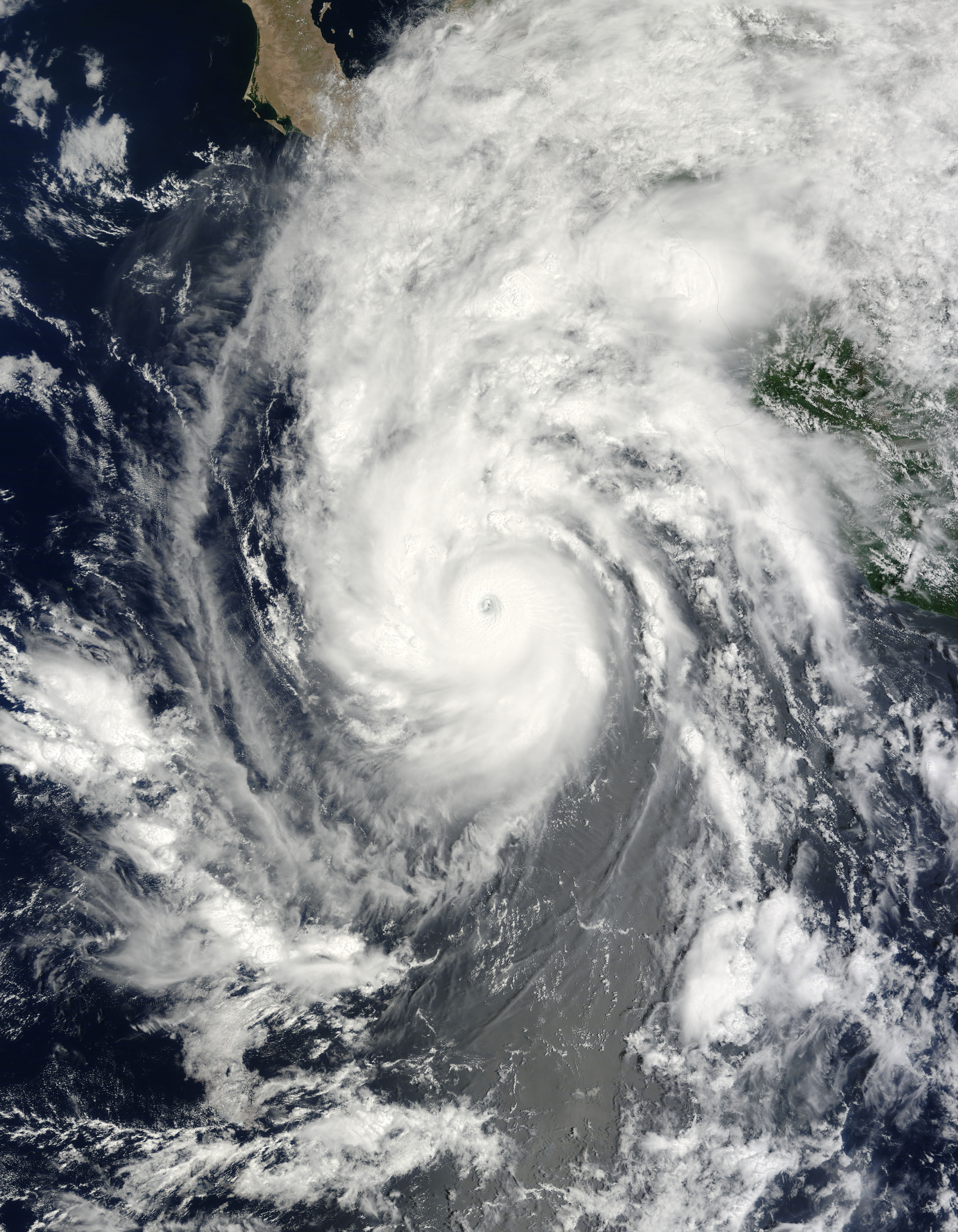 Hurricane Jimena rapidly intensifying, which began to take place early on August 29 as extremely deep convection developed and microwave satellite imagery depicted a developing eye feature within the center of the storm. Jimena turned towards the northwest by this time and moved over very warm sea surface temperatures, averaging 30 °C (86 °F). As the storm moved parallel to the Mexican coast, interests in the region were asked to watch the progress of the system. Officials opened shelters in case of strong wind. In Acapulco the storm produced overcast skies, but ports in the area remained open. The high terrain of Guerrero, Colima, and Jalisco suffered mudslides, landslides, and heavy rain from outer rainbands related to the system. Strong waves generated by the hurricane and gusty winds forced a boat to arrive late in port. These winds, as well as heavy rainfall, uprooted one tree. Several other trees were damaged and the hurricane kicked up surf in the area.